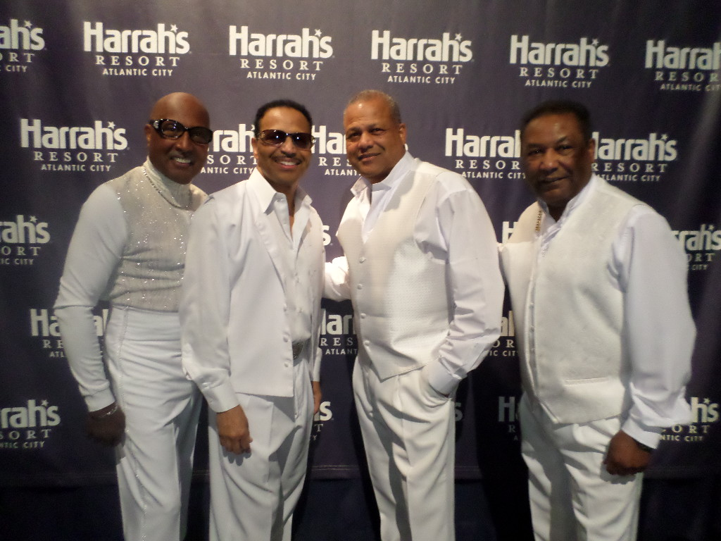 Tavares at Harrah's Casino in Atlantic City 2015